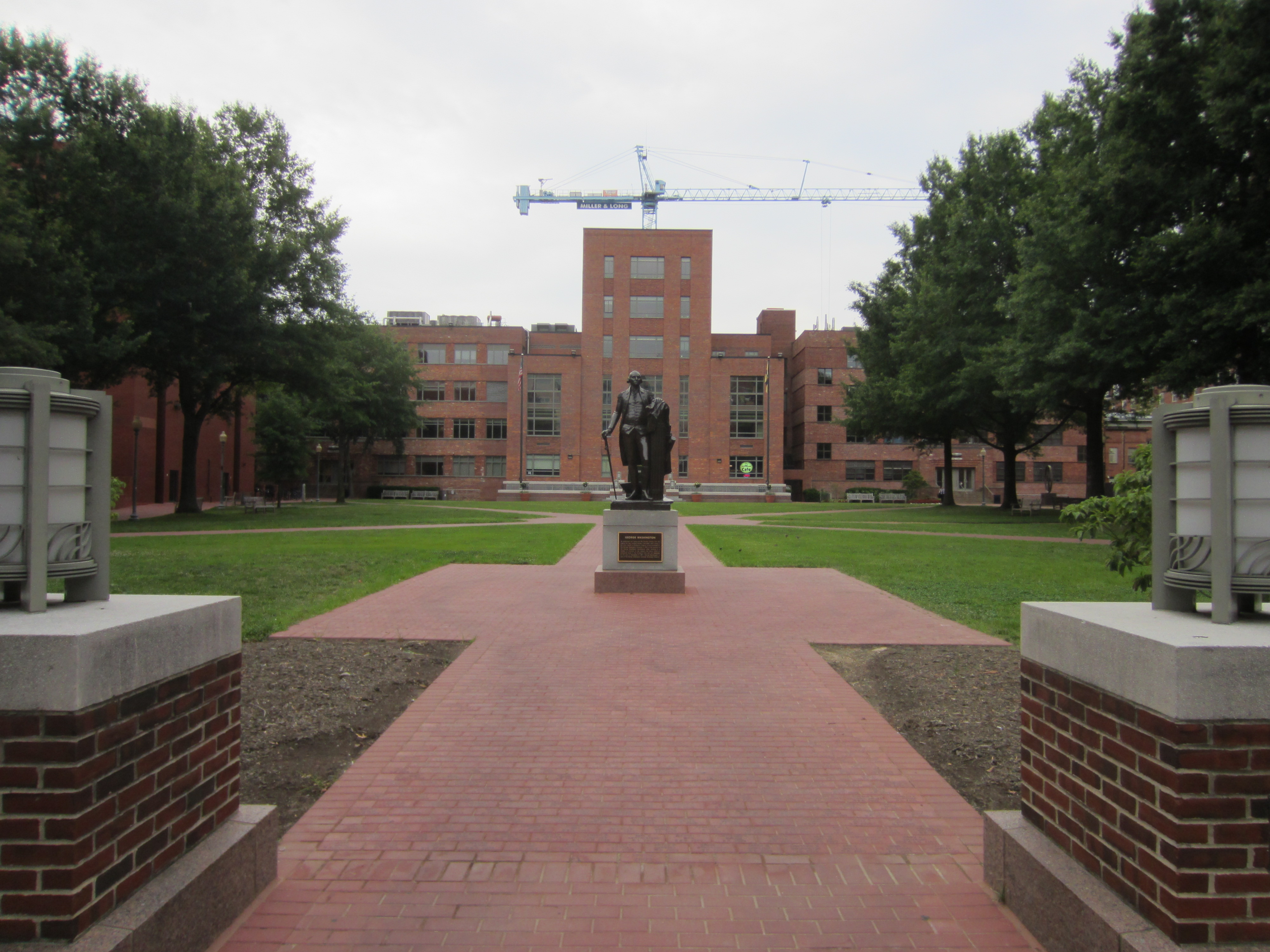 University Yard, George Washington University (2012)